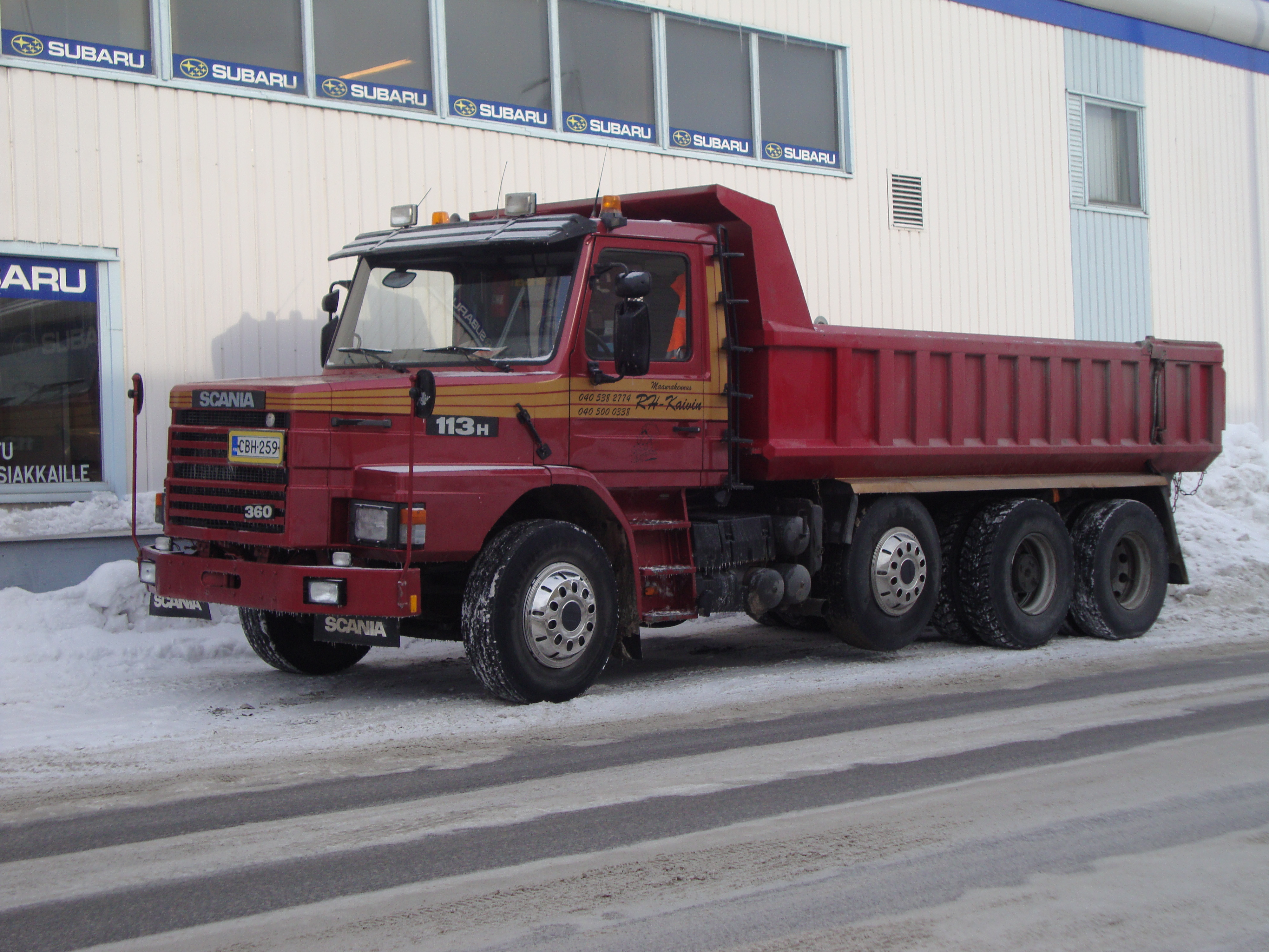 A hooded Scania 113H in Kerava, Finland